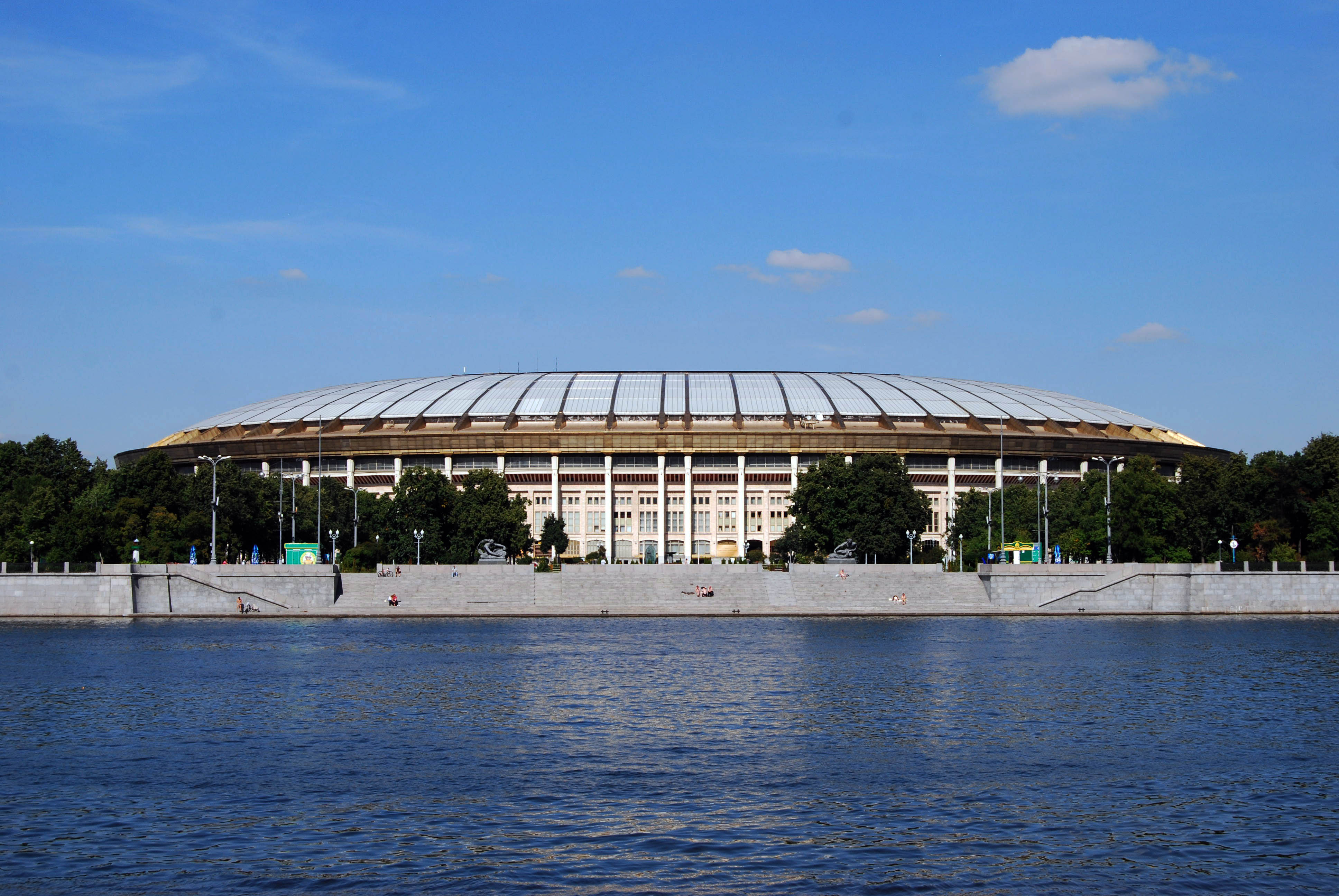 The Luzhniki Stadium. You may use this image under a Creative Commons licence providing you also include a link to